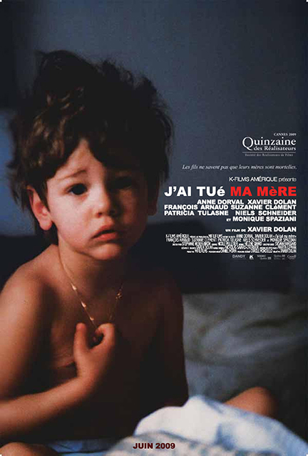 Poster of the movie I Killed My Mother (Q2354576)